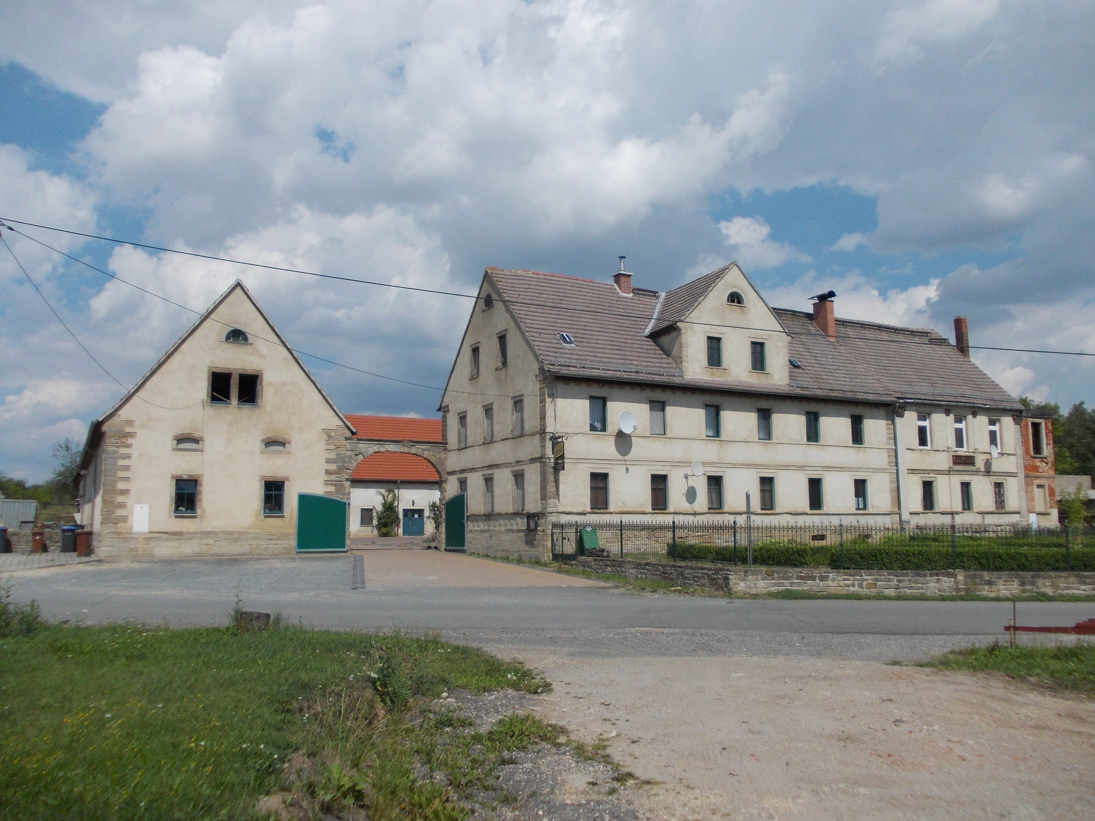 Schnaudertal Estate in Dragsdorf (Schnaudertal, district: Burgenlandkreis, Saxony-Anhalt)